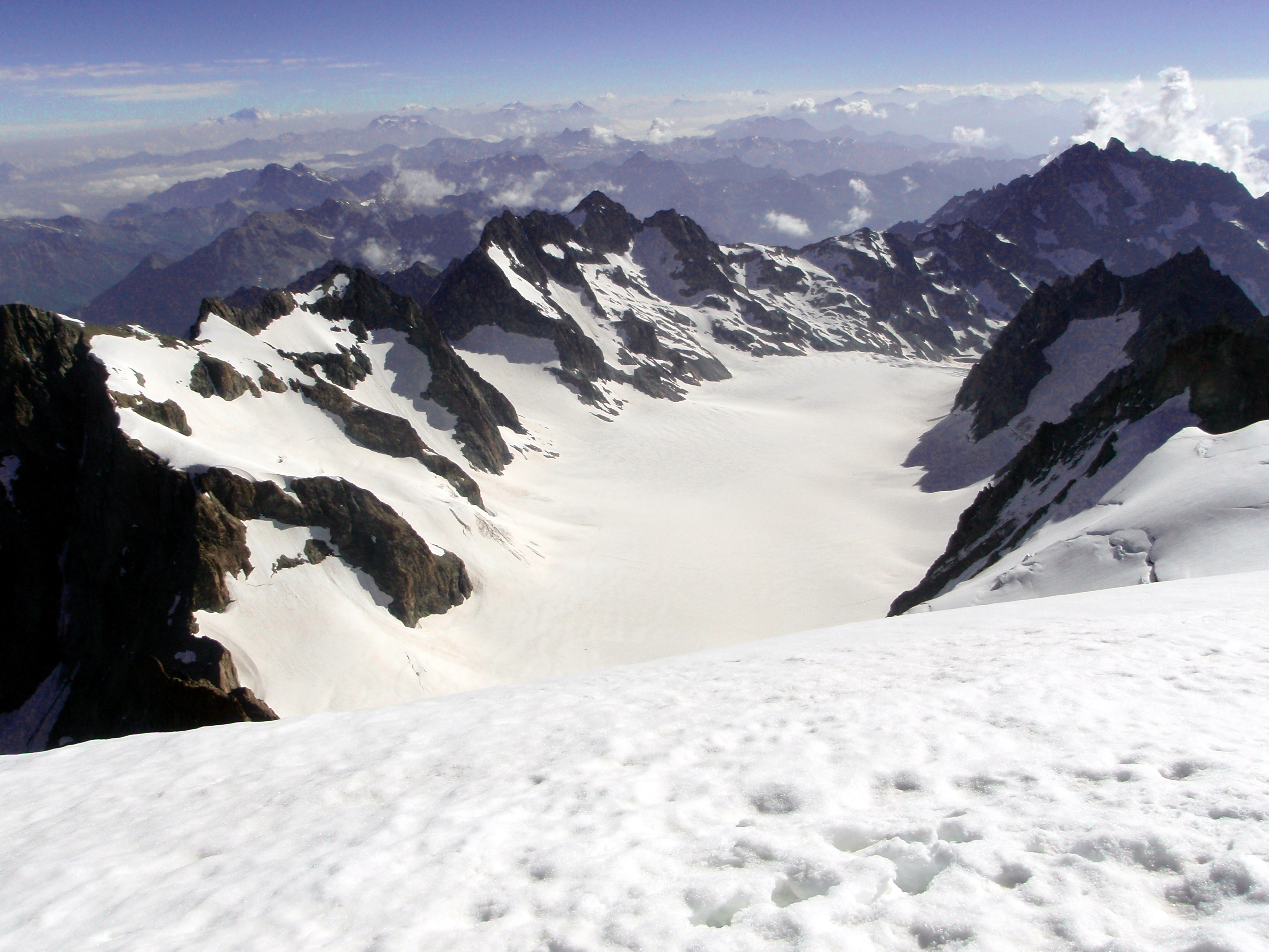 Glacier Blanc, situated in Hautes Alpes, France, as seen from Dôme de Neige des Écrins, 4.015 m. Photo was taken 15/07/2010.